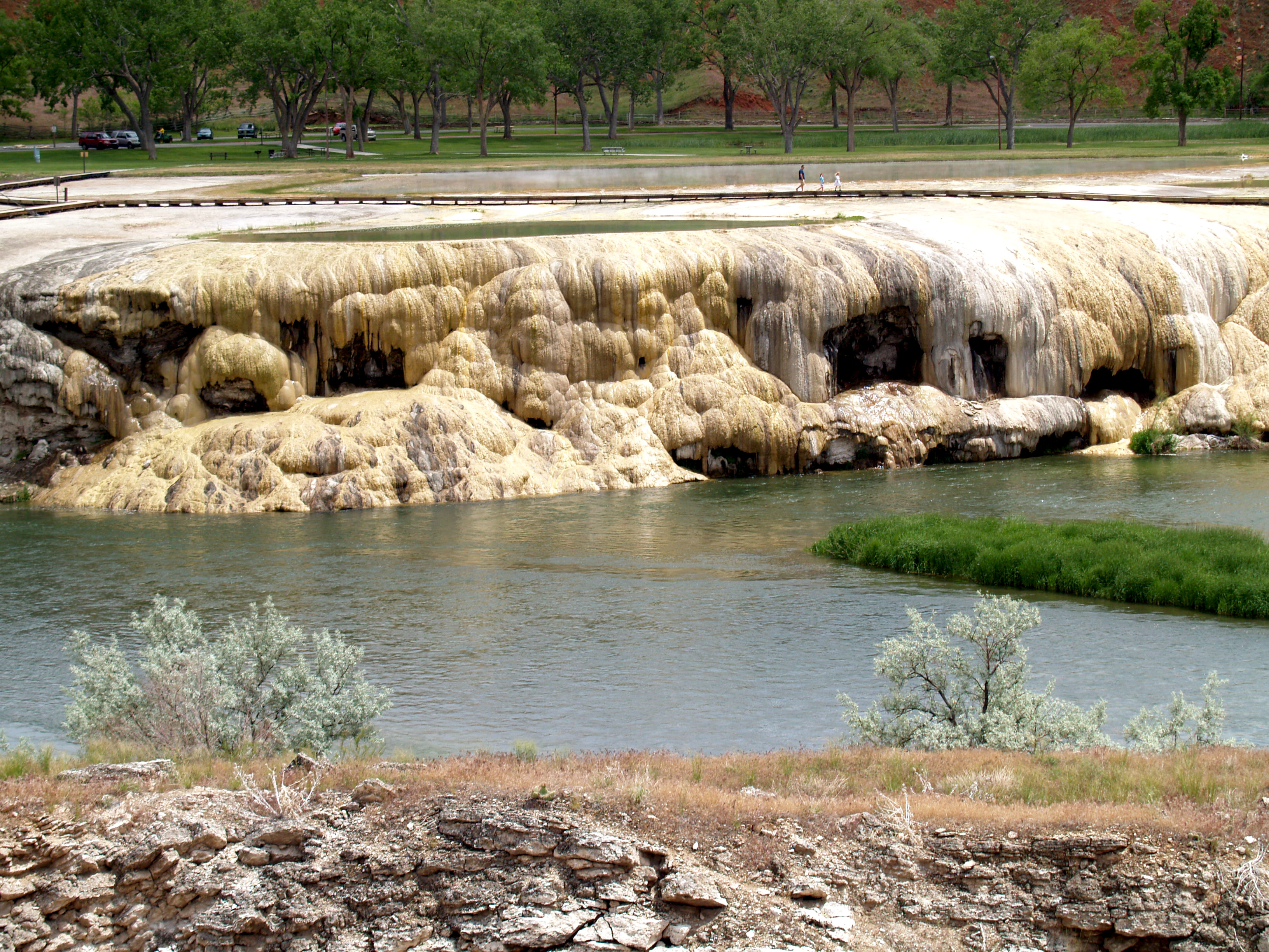 Hot Springs State Park, Thermopolis WY